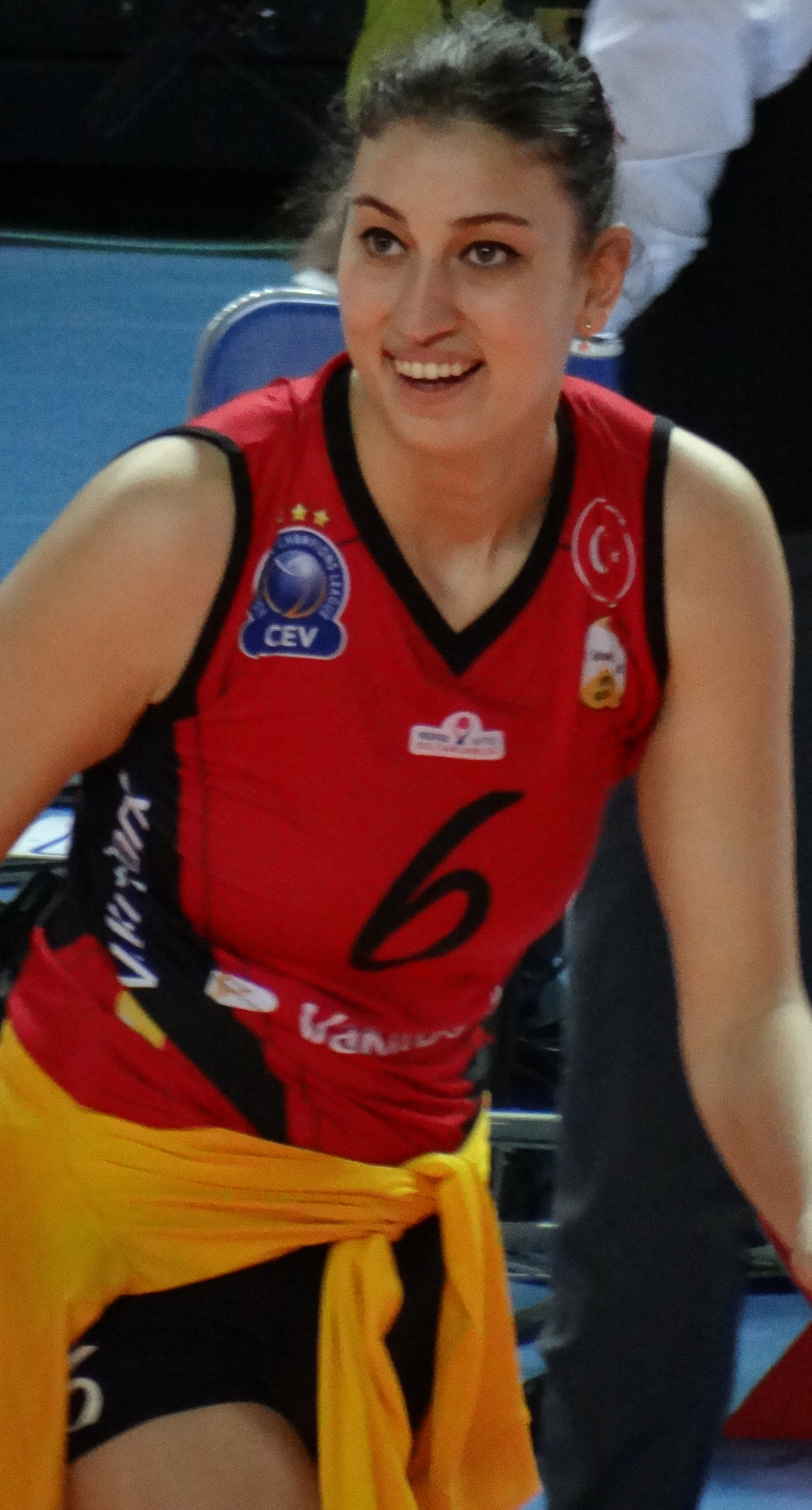 Kübra Akman 6 Vakıfbank SK TWVL 20180426